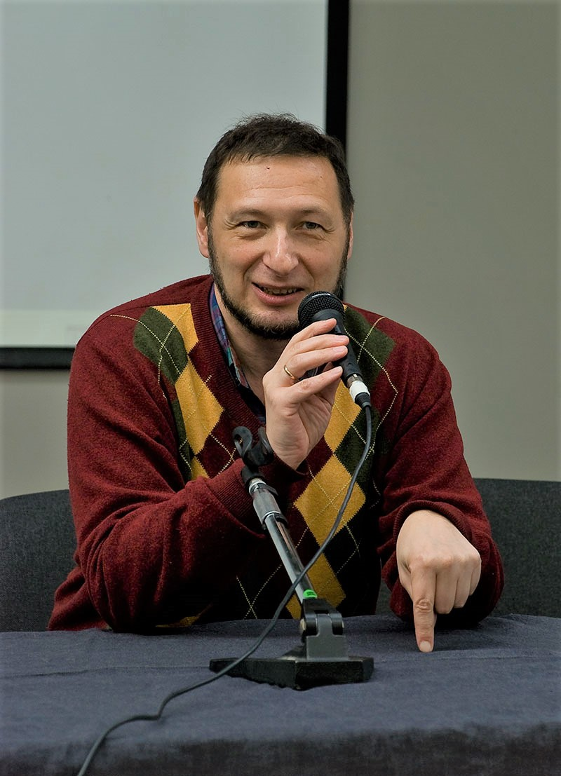 Boris Kagarlitsky